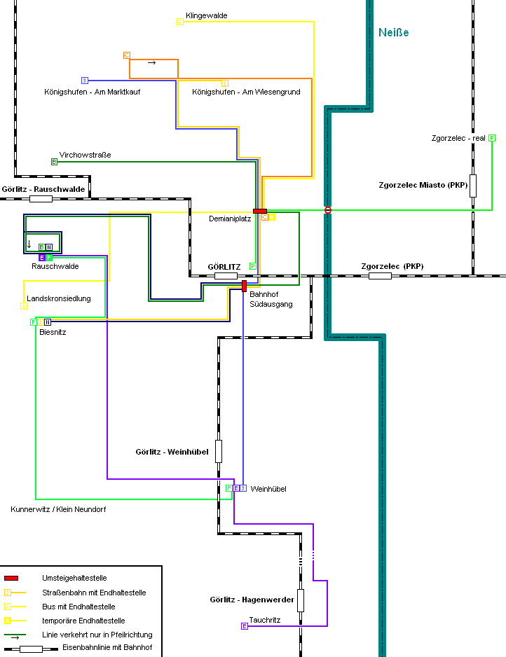 schematic line network of the Görlitz transport company (VGG)